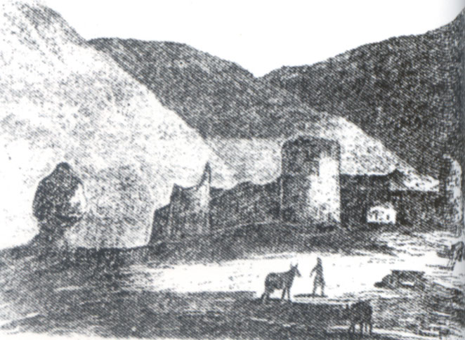 Shahbulaq. Painting of traveler